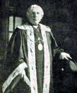 Mary Bell was a Scottish politician, one of the first Scottish women to be elected as a local councillor, and the first female magistrate of the city of Glasgow. The picture is from a 1926 pic in "The Vote" and the photographer was unknown to the editor Clareleethompson. The Vote Friday, November 5, 1926